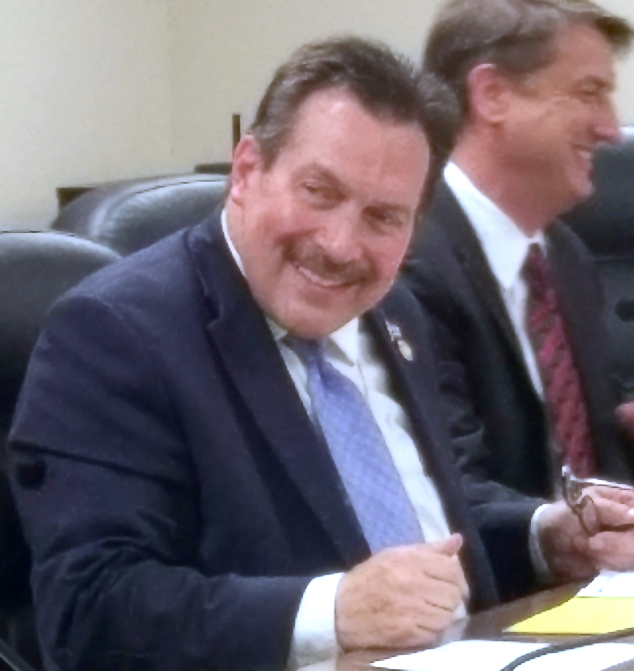 Denise Driehaus, Todd Portune, Chris Monzel Taken at a public hearing held by the Hamilton County Commissioners on September 27, 2017 at the Hamilton County Board of Elections office (4700 Smith Rd, Cincinnati, OH 45212). The purpose of the hearing was for the county to collect feedback on priorities for "big box"/big spending projects. A large group of FC Cincinnati fans attended to advocate for funding for a new stadium for the team. More info: Cincinnati Business Courier article, WCPO article.